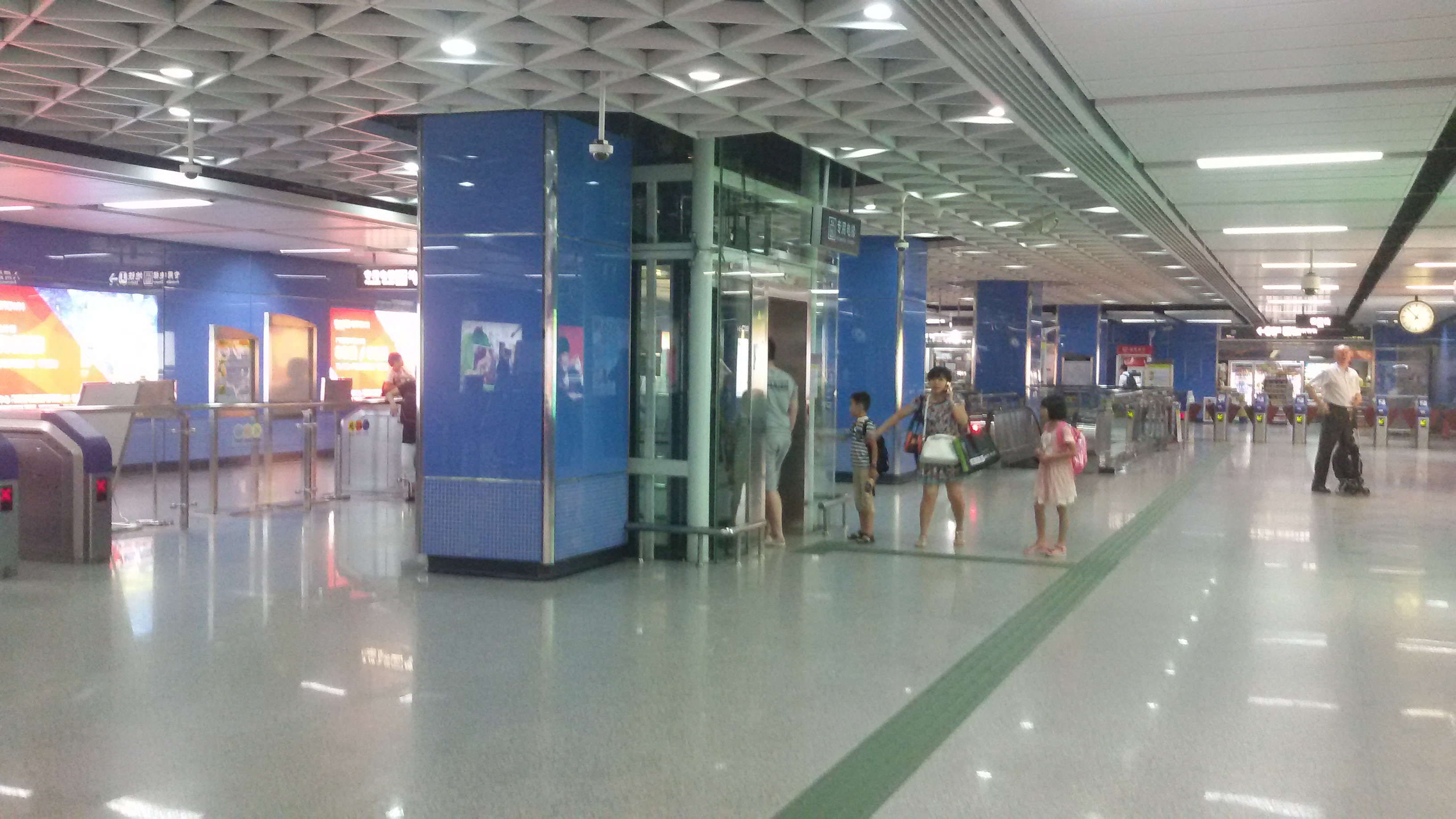 Station Concourse for Liede Station, Guangzhou Metro. 粵語: 廣州地鐵獵德站嘅站廳